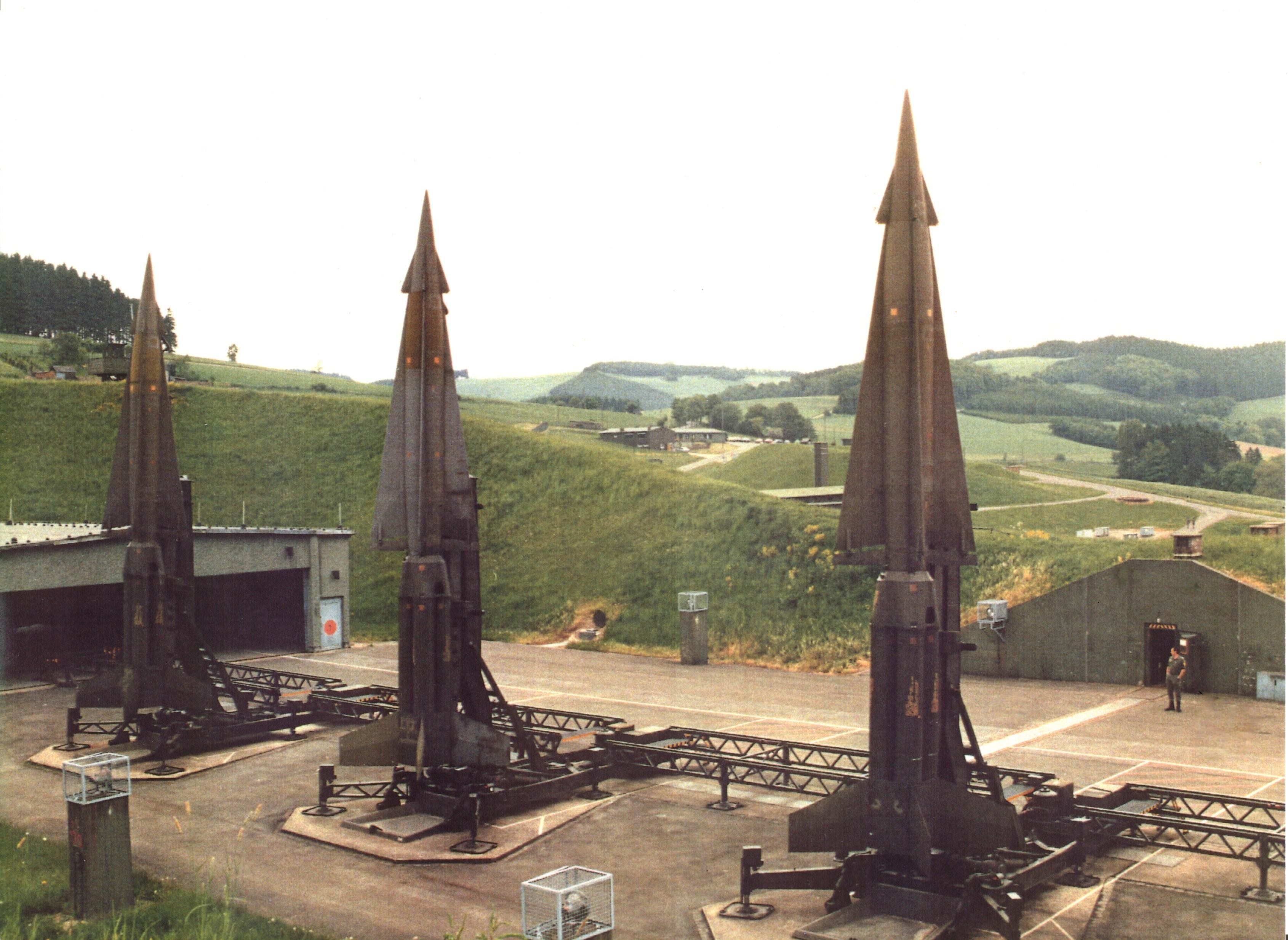 Three erected Nike-Hercules missiles in Section A of unit 1./FlaRakBtl 22. On the left side the missile-barn, to the right the crew shelter and behind it the generator building.